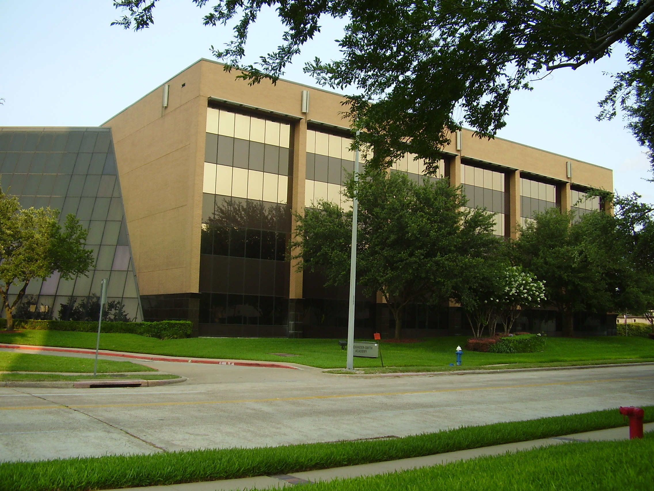 10255 Richmond, an office building which houses Alexander-Smith Academy